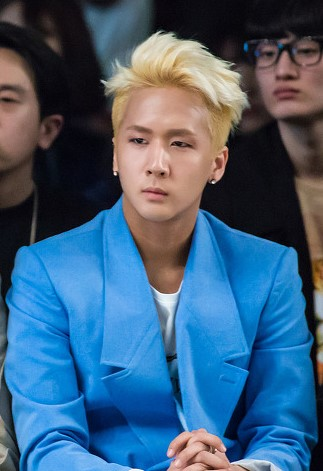 Ravi at Seoul Fashion Week, on March 22 2015.